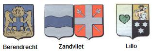 Escutcheons of the villages in the Bezali district Antwerp)